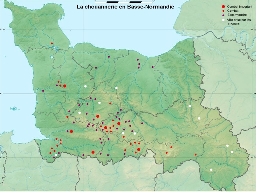 Chouannerie normande, carte des combats